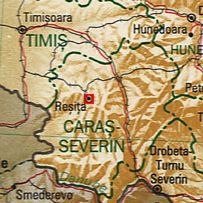 Map of Reșița Municipality, Romania.